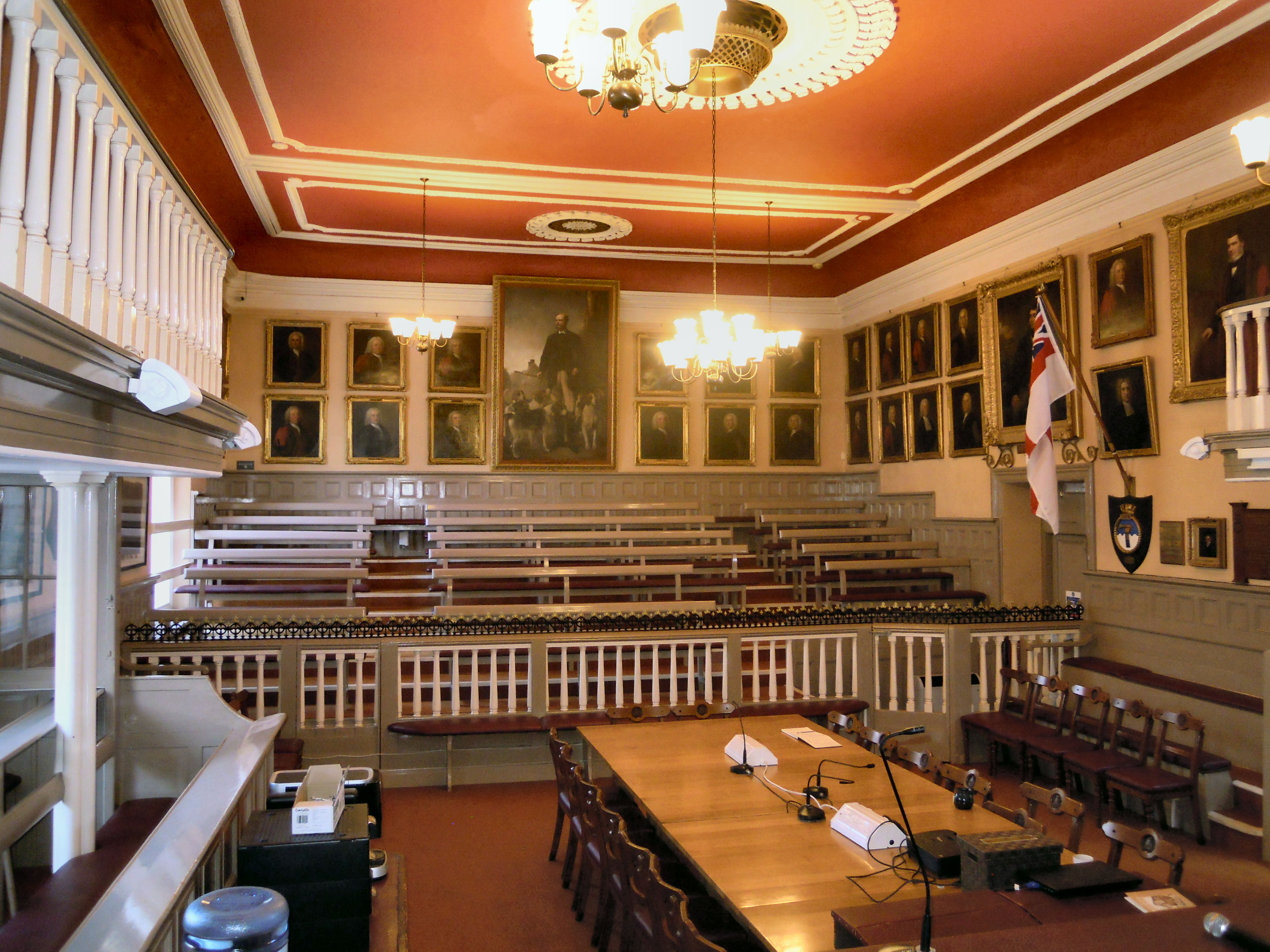 The Chamber at the Guildhall and Pannier Market at Barnstaple in Devon.